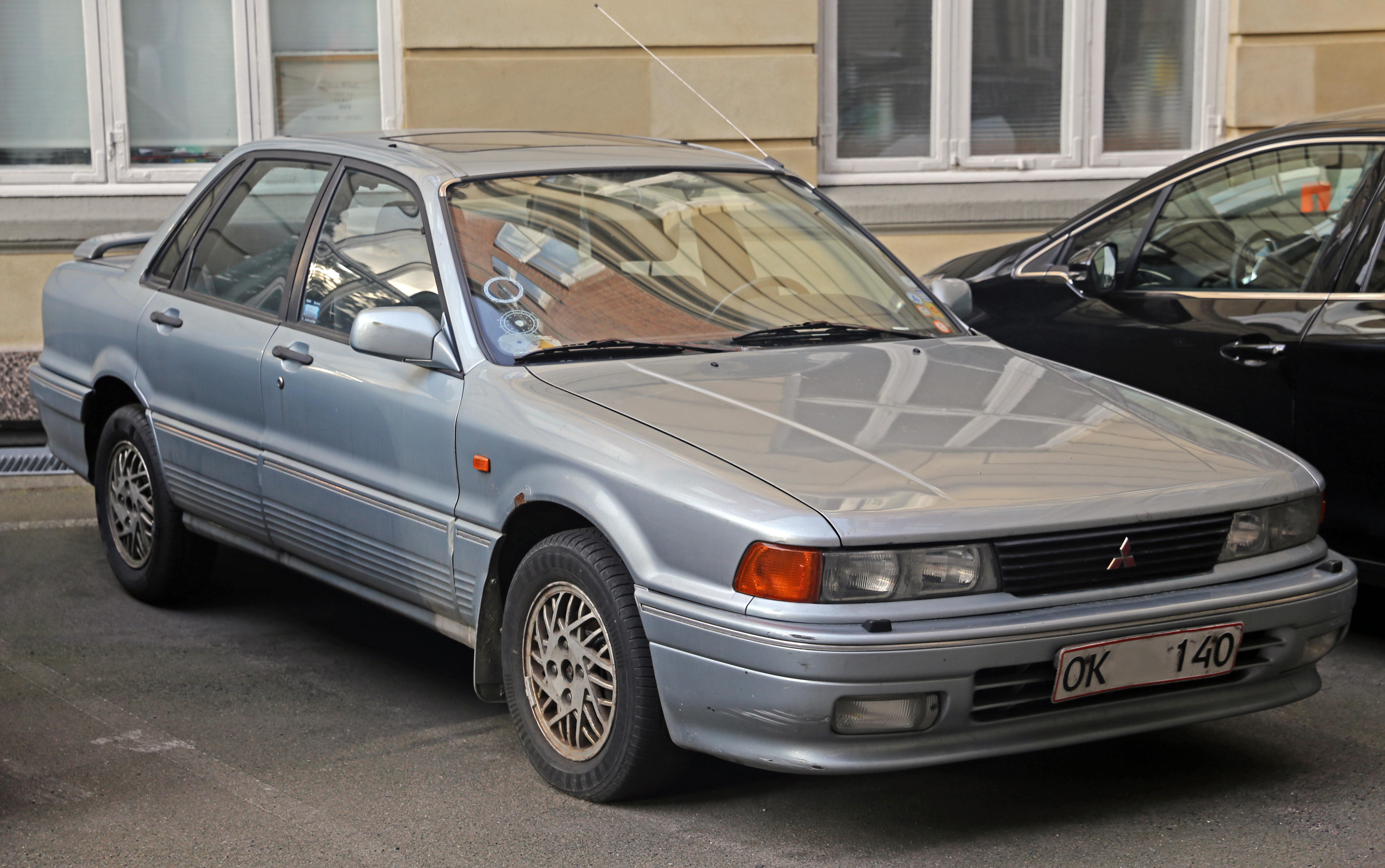 A 1991 Mitsubishi Galant 1800 Limited Edition Sport in Copenhagen. This was a better equipped, "sportier" version of the 1800 GLi, utilizing a lot of the equipment seen on the 2000 DOHC in other markets.